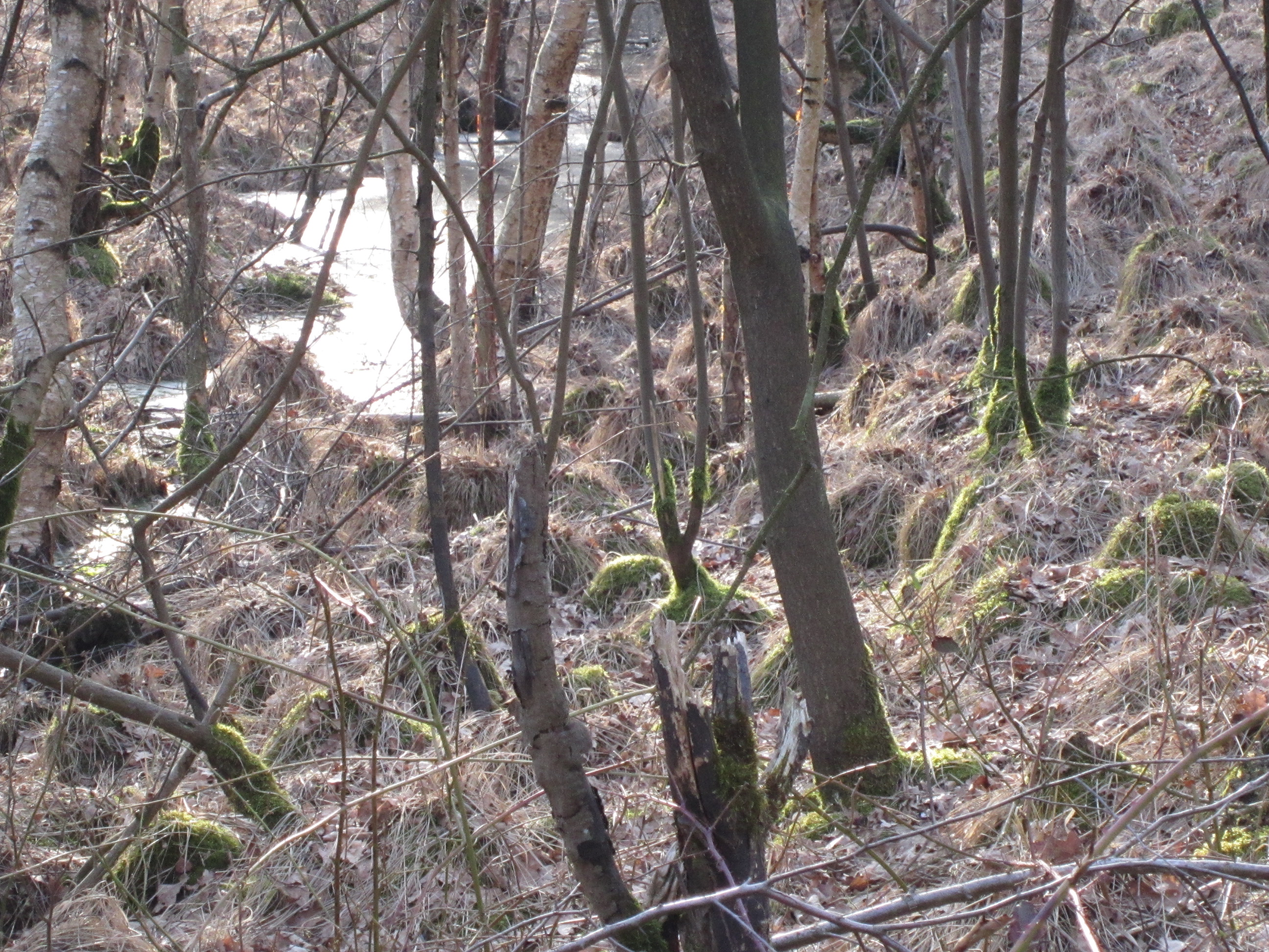 Bog "Aschener Moor" (nature reserve) near Diepholz (Lower Saxony)